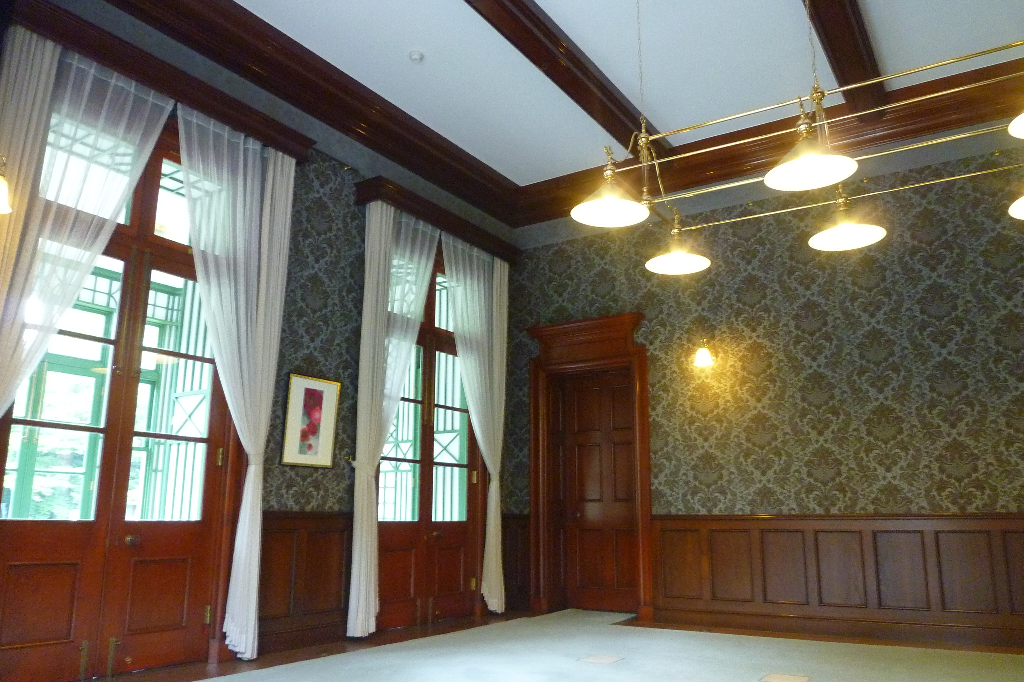 Kyu-Furukawa Gardens(旧古河庭園, kyũ-furukawa teien) is a Tokyo metropolitan park in Kita, Tokyo. This is a view of the inside of the western-style building, for those who might have been curious!